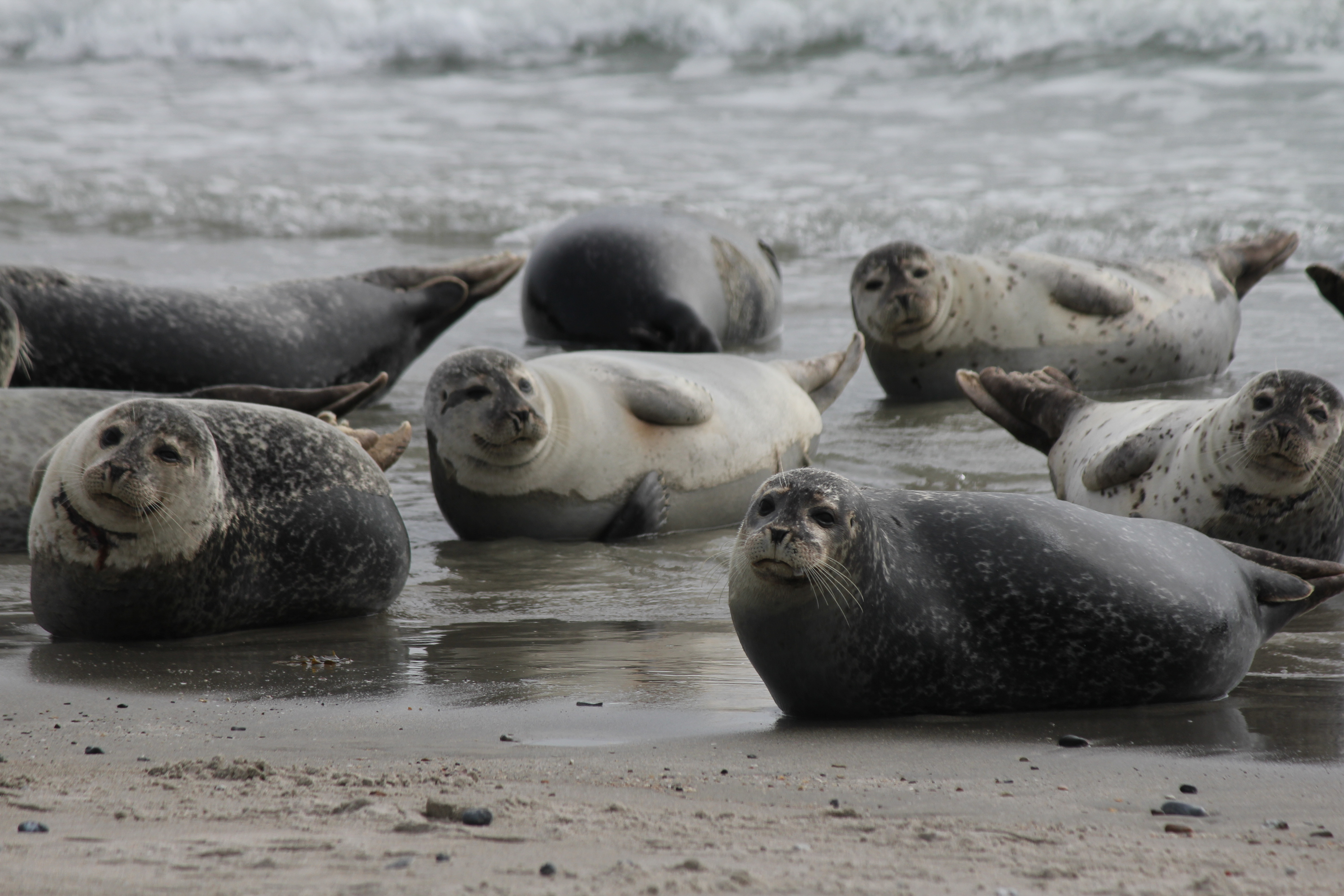 Harbor seal, Heligoland's Sand Dune